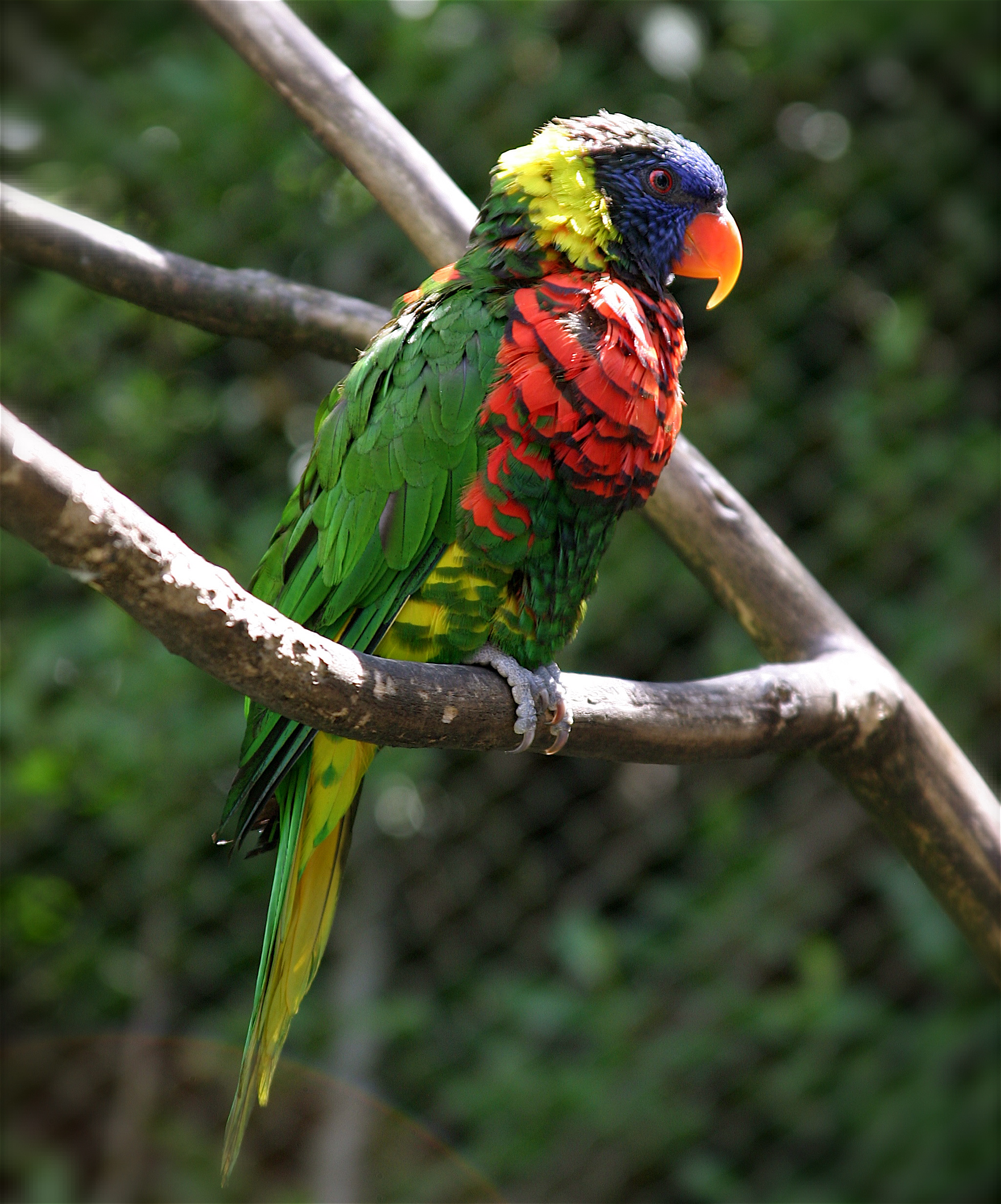 Trichoglossus haematodus haematodus (Green-Naped Lorikeet) at the Oregon Zoo